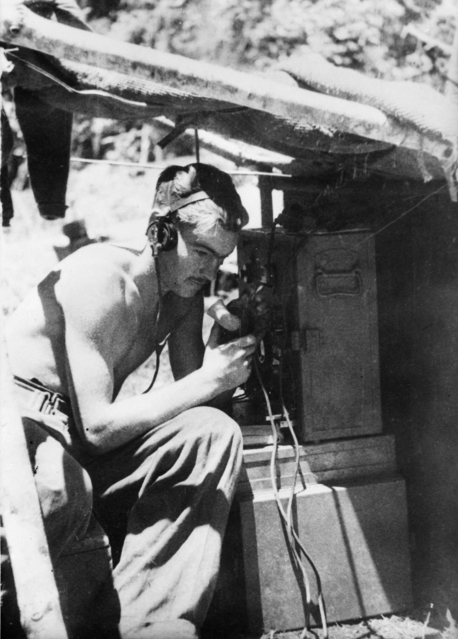 NX142537 Signalman James (Jim) Pashley, a member of a signals unit attached to the 16th Brigade, listens to a radio under a makeshift cover on the Kokoda Track. (Original housed in AWM Archive Store)